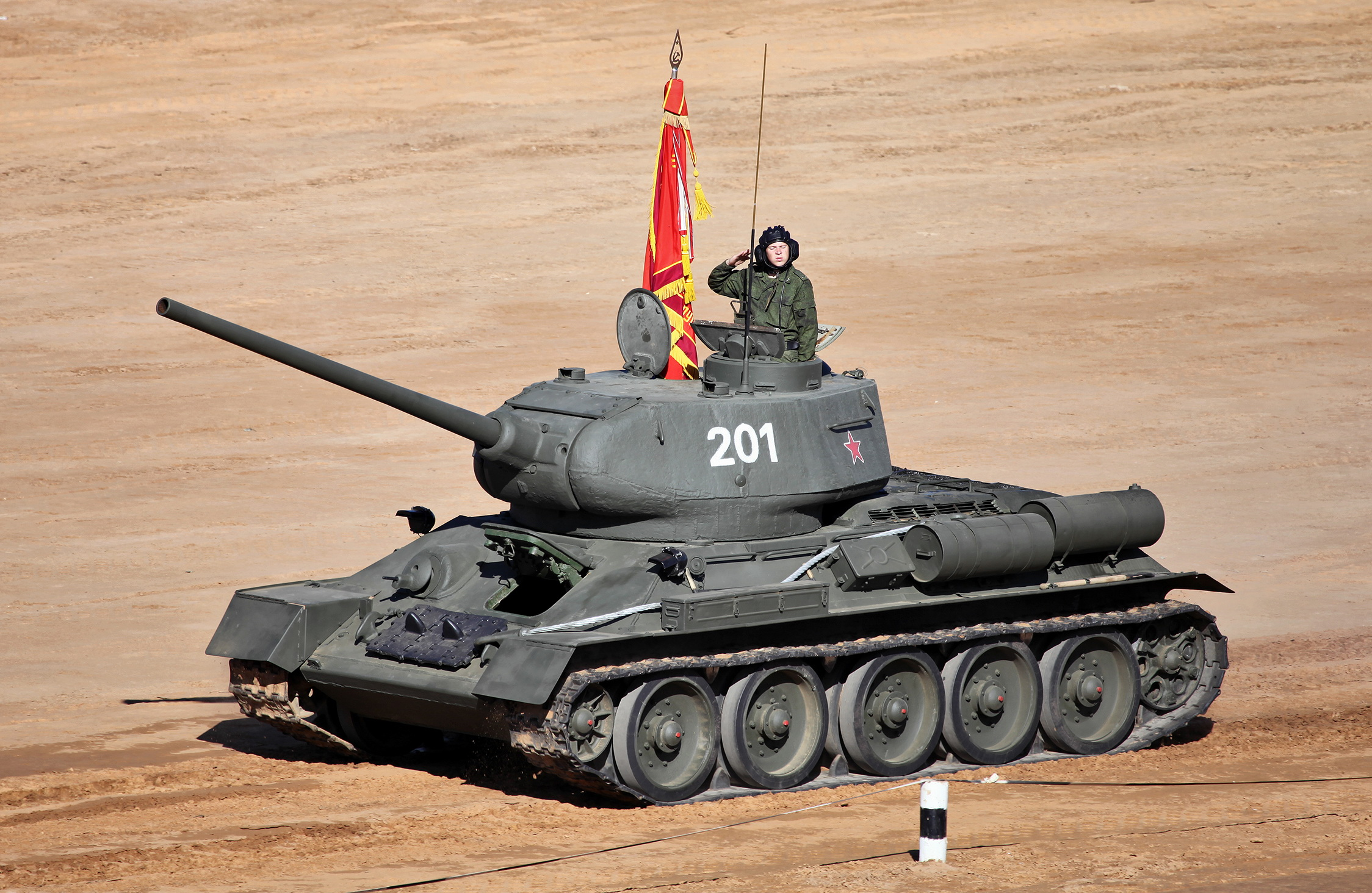 T-34-85